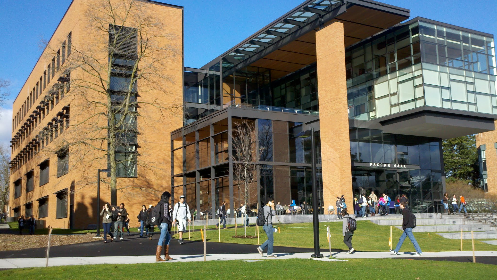 Picture of Paccar Hall from the University of Washington campus.